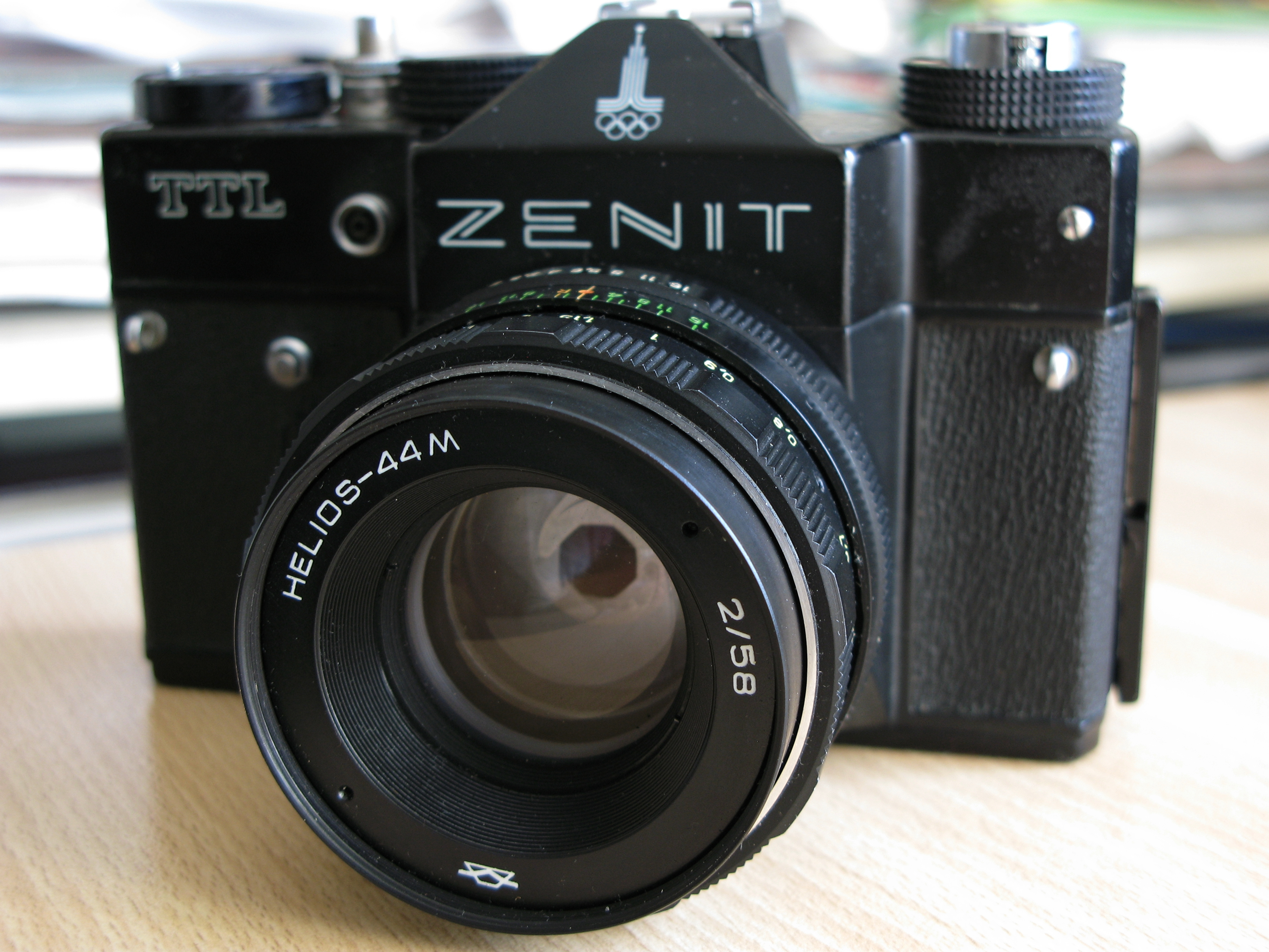 Soviet film camera Zenit TTL.